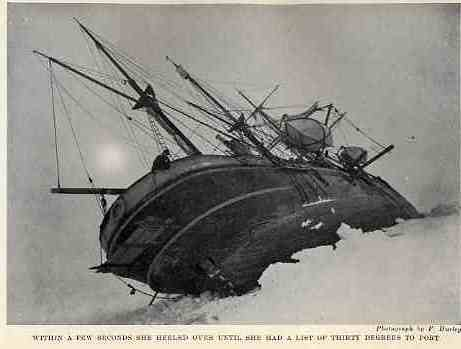 "Within a few Seconds she heeled over until she had a List of Thirty Degrees to Port". Endurance ship, Antarctica.